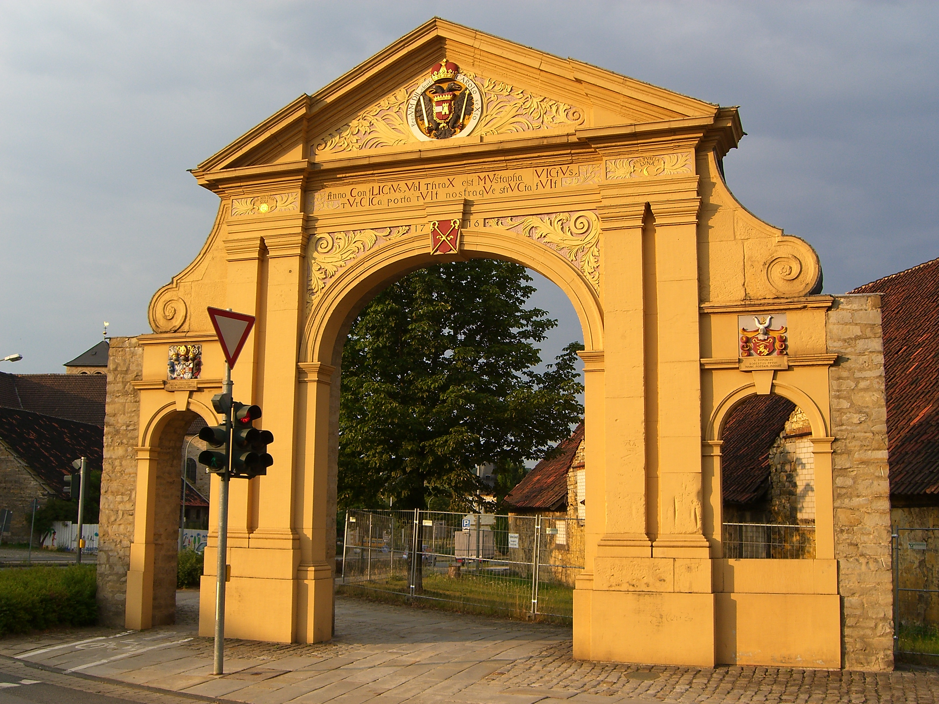 'Türkentor' (turkish gate) in Helmstedt